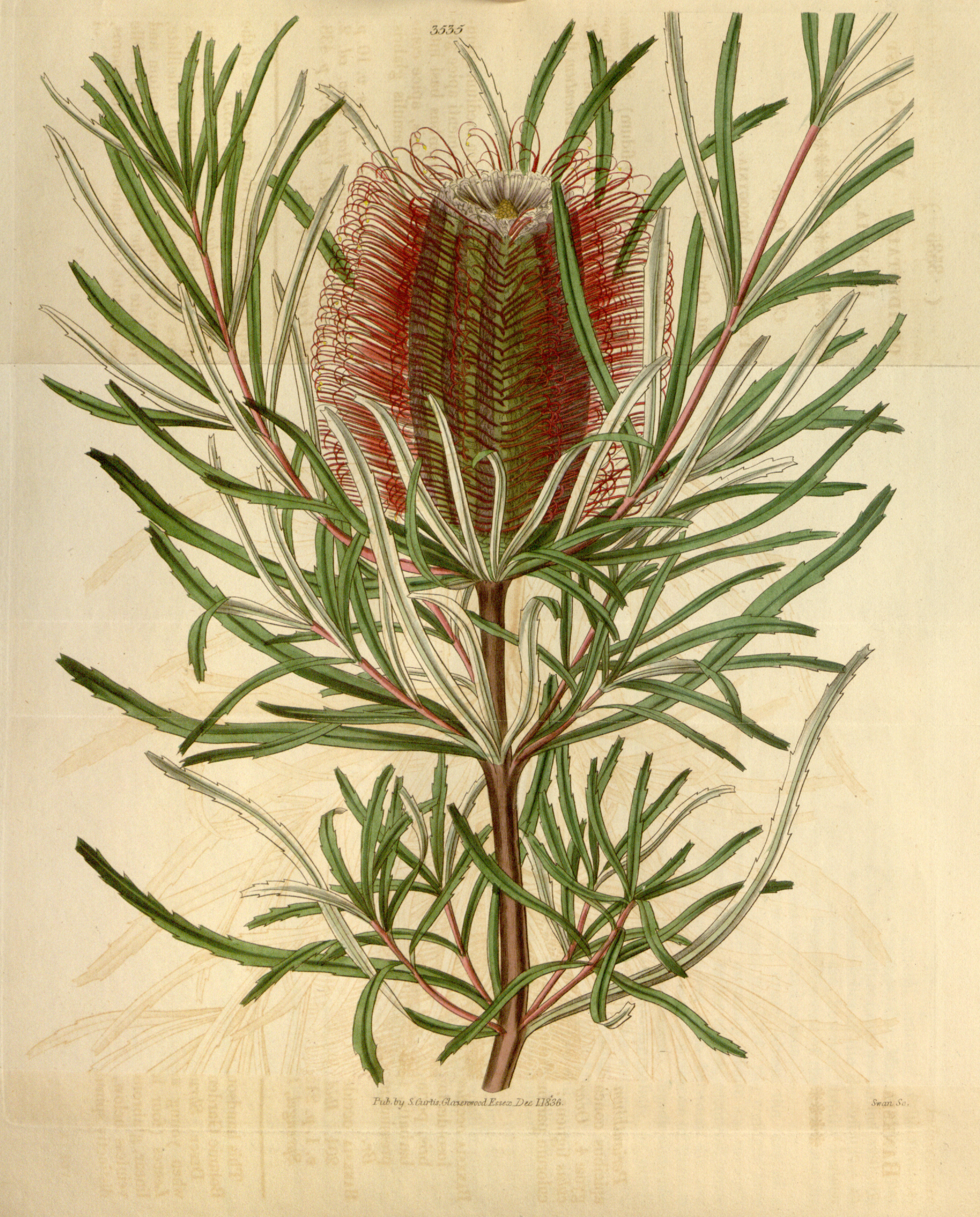 This is a scan of tab 3535 Banksia occidentalis.